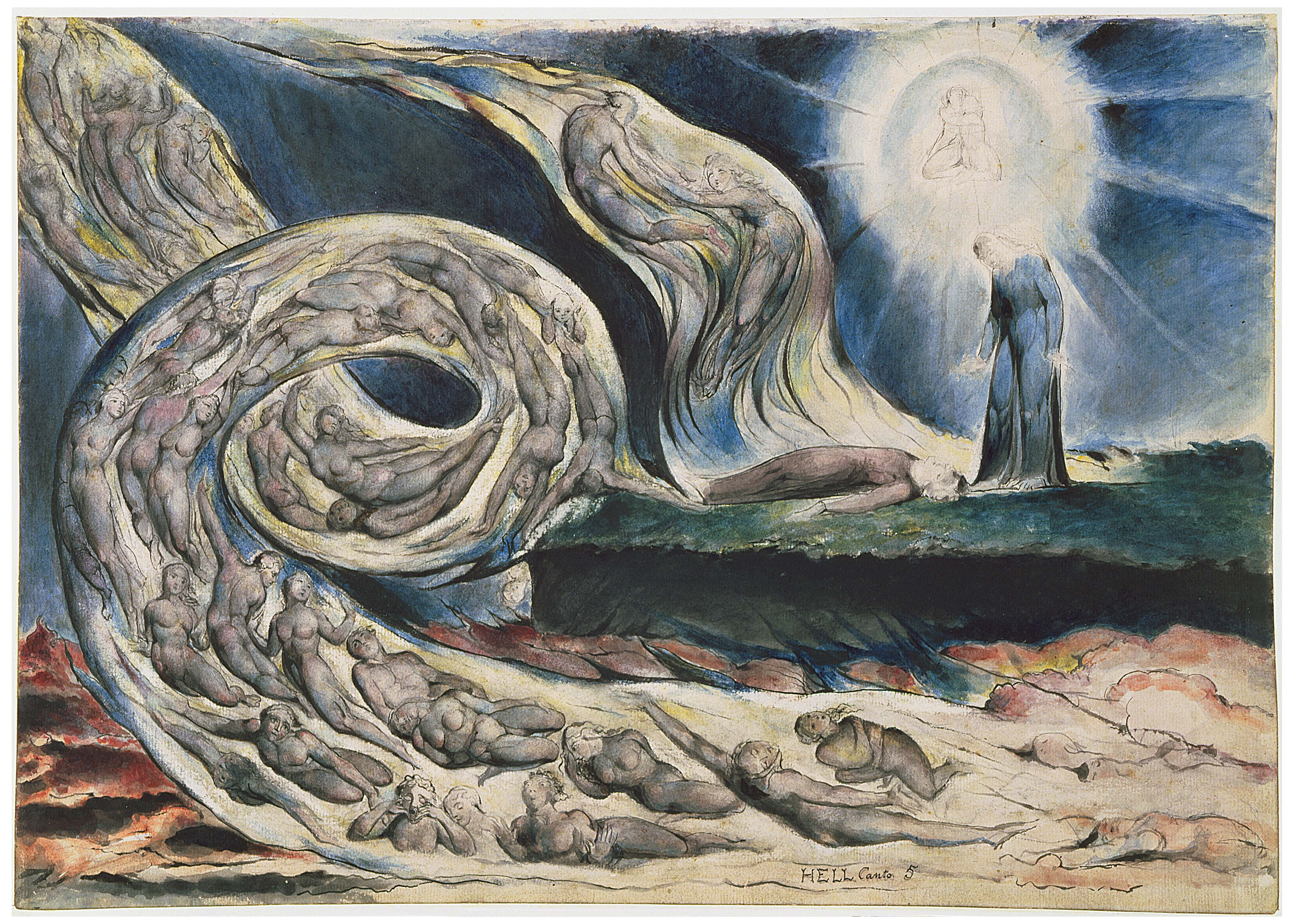 Illustrations to Dante's Divine Comedy object 10 Butlin 812-10 The Circle of the Lustful Francesca Da Rimini